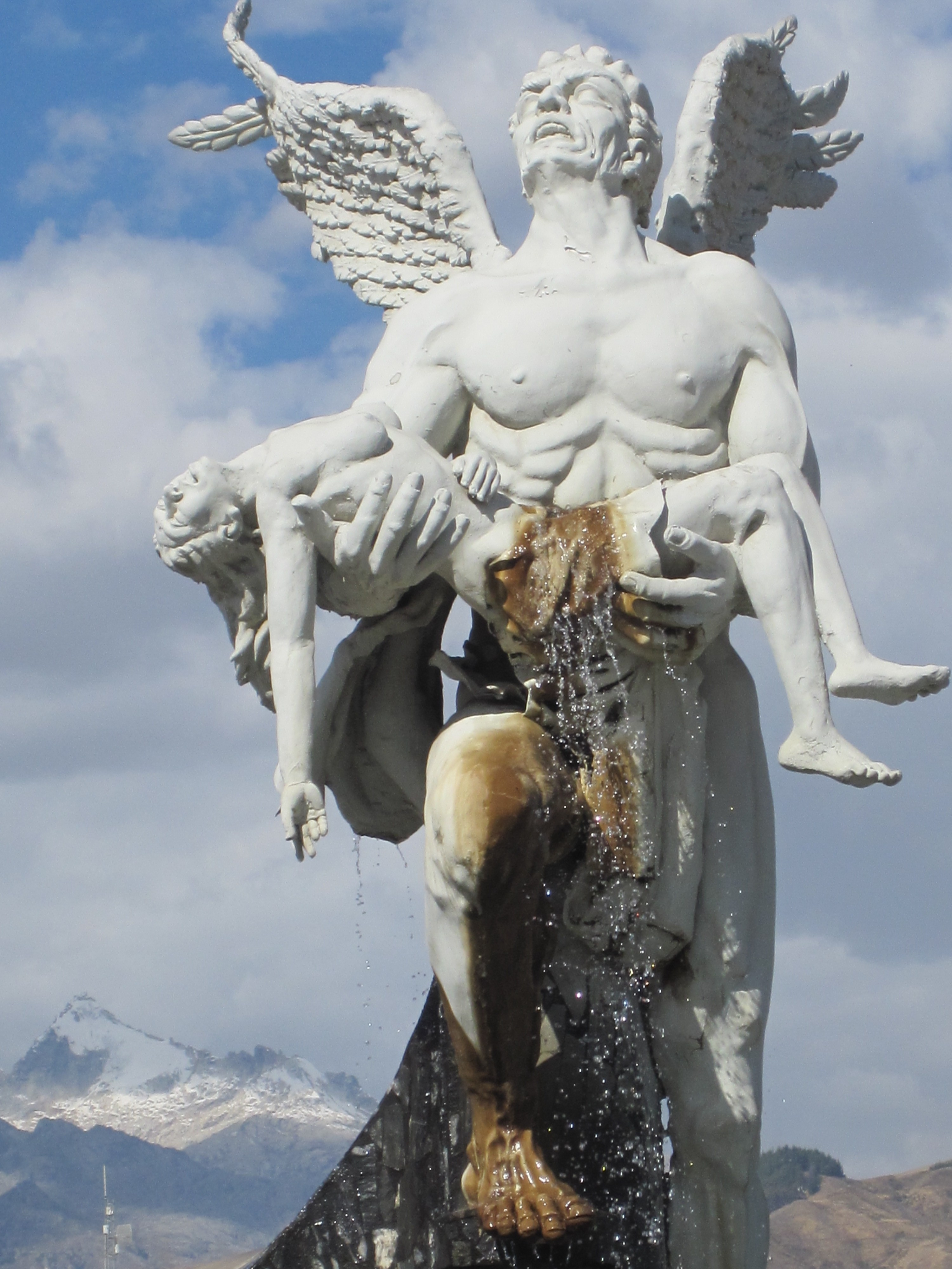 Monument to Huaraz commemorating the landslides of 1941 and 1970 - Puente Quillcay - Boulevard Pastorita Huaracina.